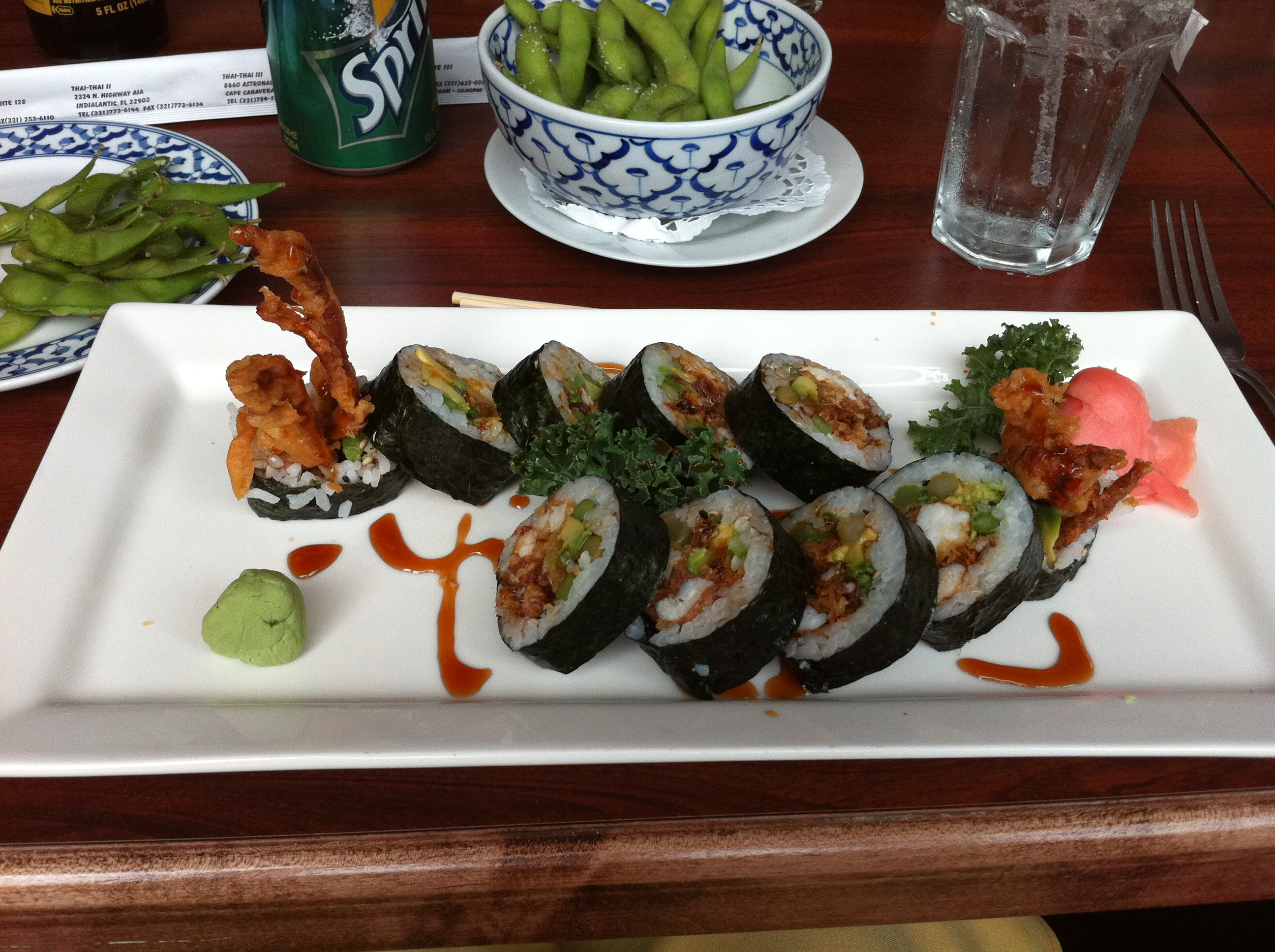 Spider roll as taken with an iPhone